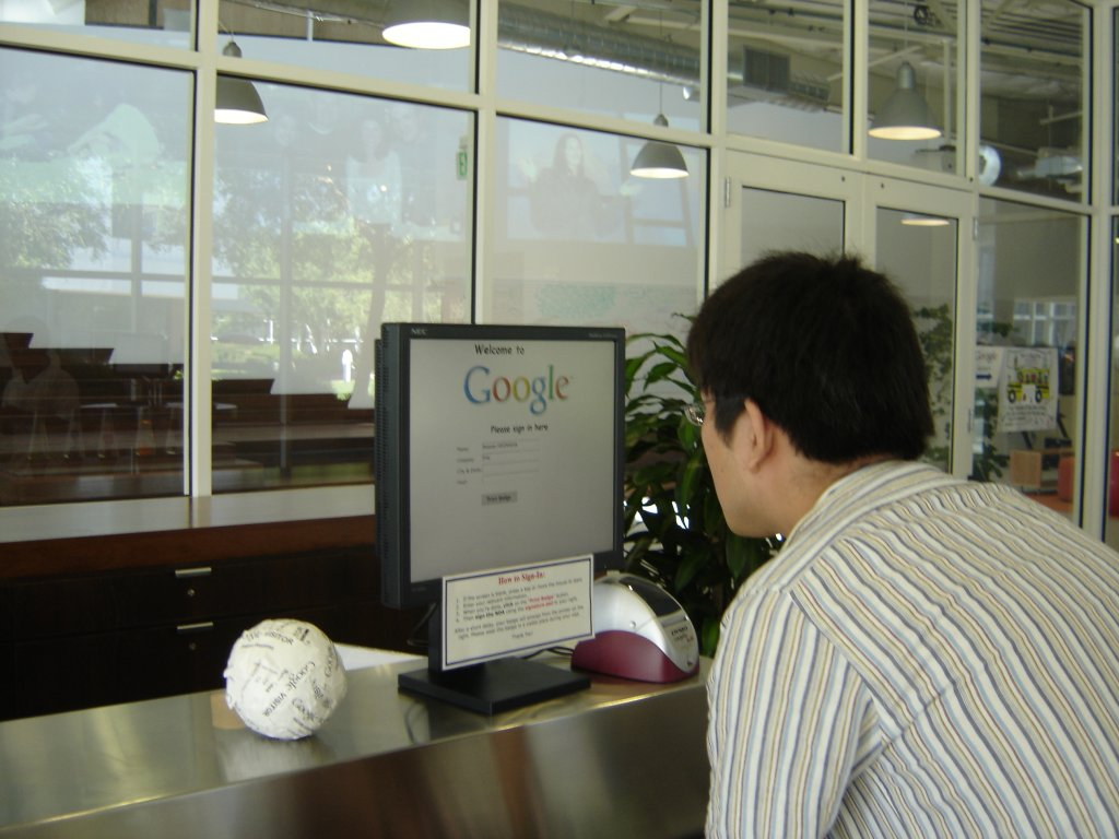 A visitor to the "Googleplex" Google headquarters in Mountain View, California makes himself a name badge and signs a non-disclosure agreement.